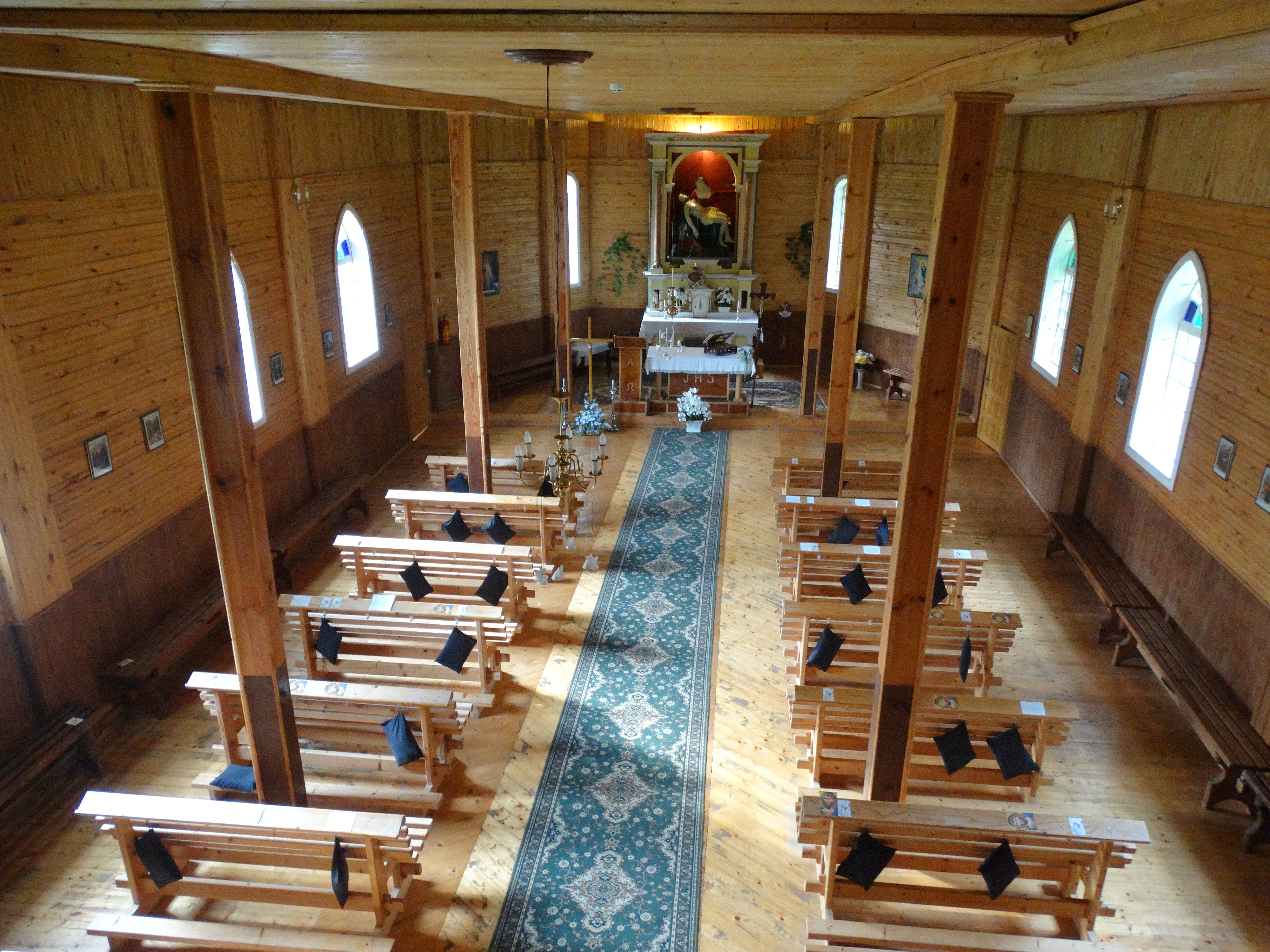 Church of Crucified Jesus, Muniškiai, Kaunas district, Lithuania